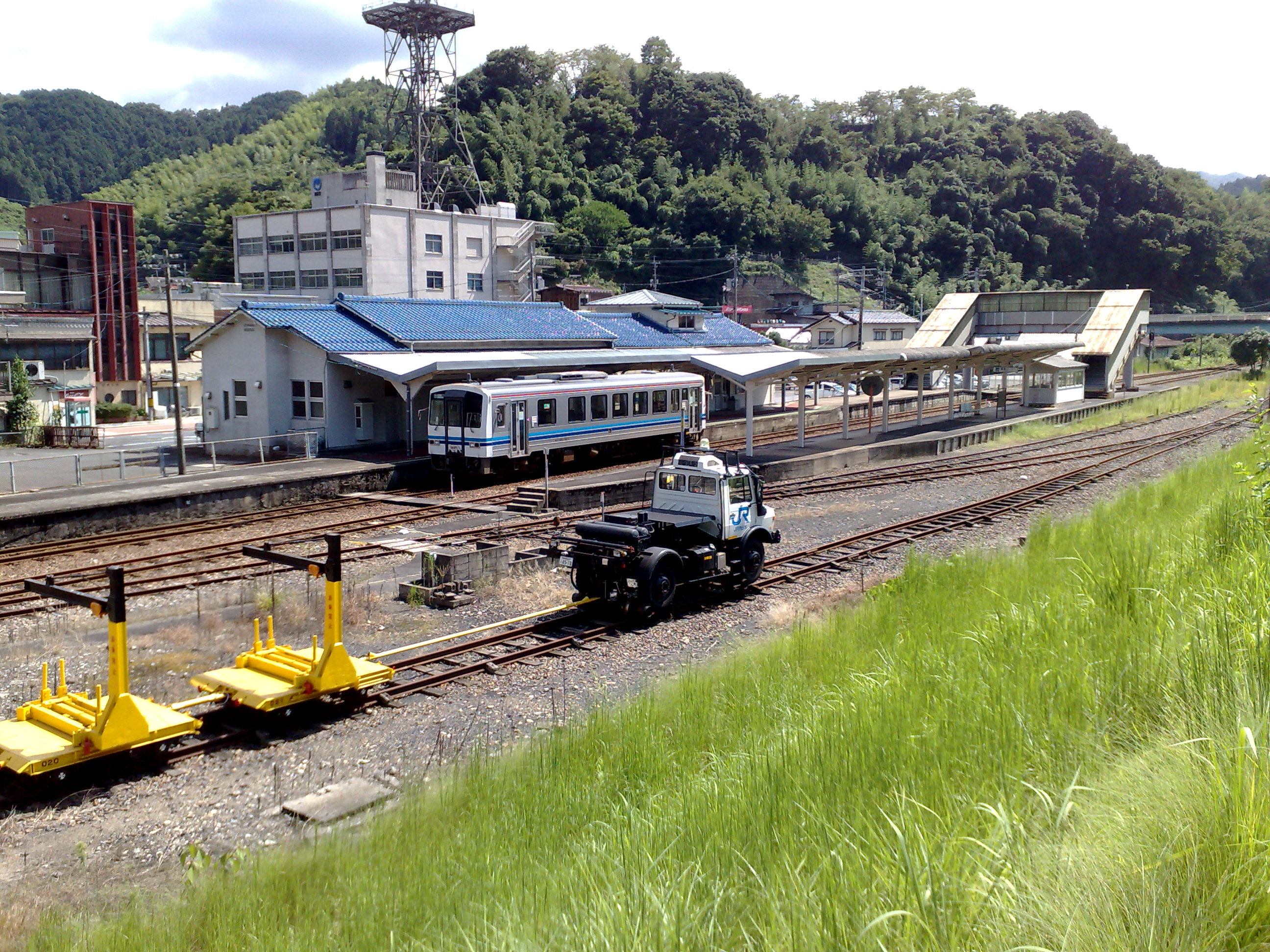 A JR West KiHa 120 diesel car at Iwami-Kawamoto Station on the Sanko Line in Kawamoto, Shimane Prefecture, Japan